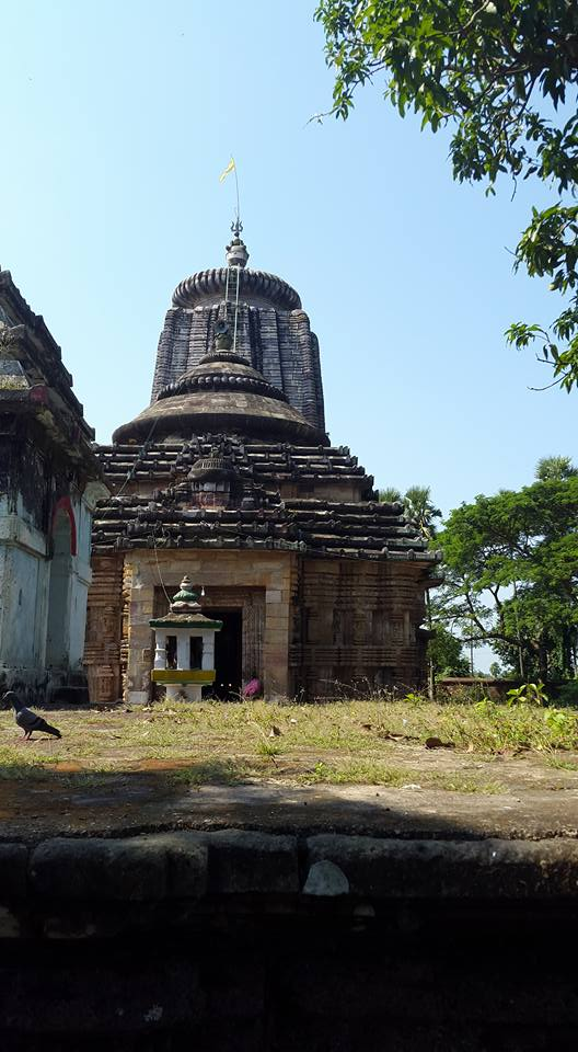 Buddhanatha Temple at Garedi Panchana, Bhubaneswar, Odisha